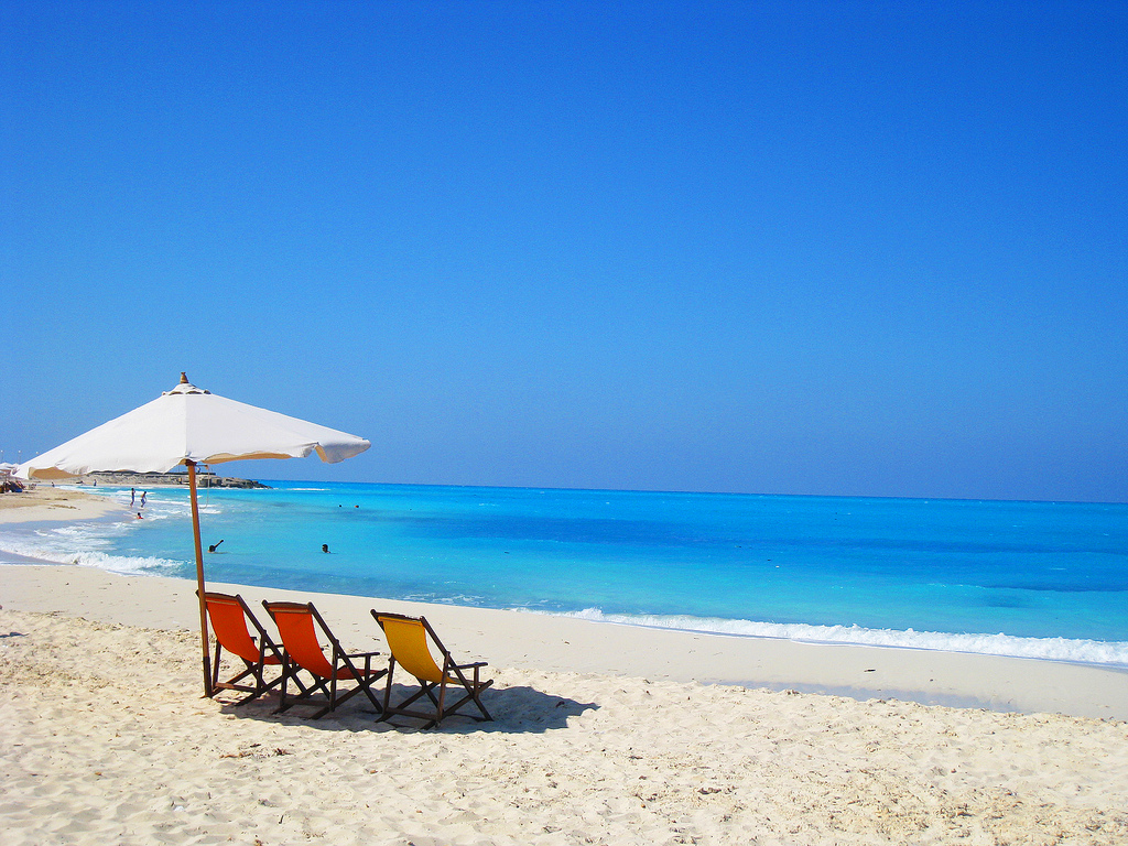 Beach at Marina-Egypt